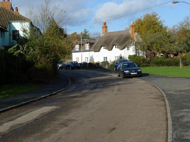 Simpson Road, Simpson